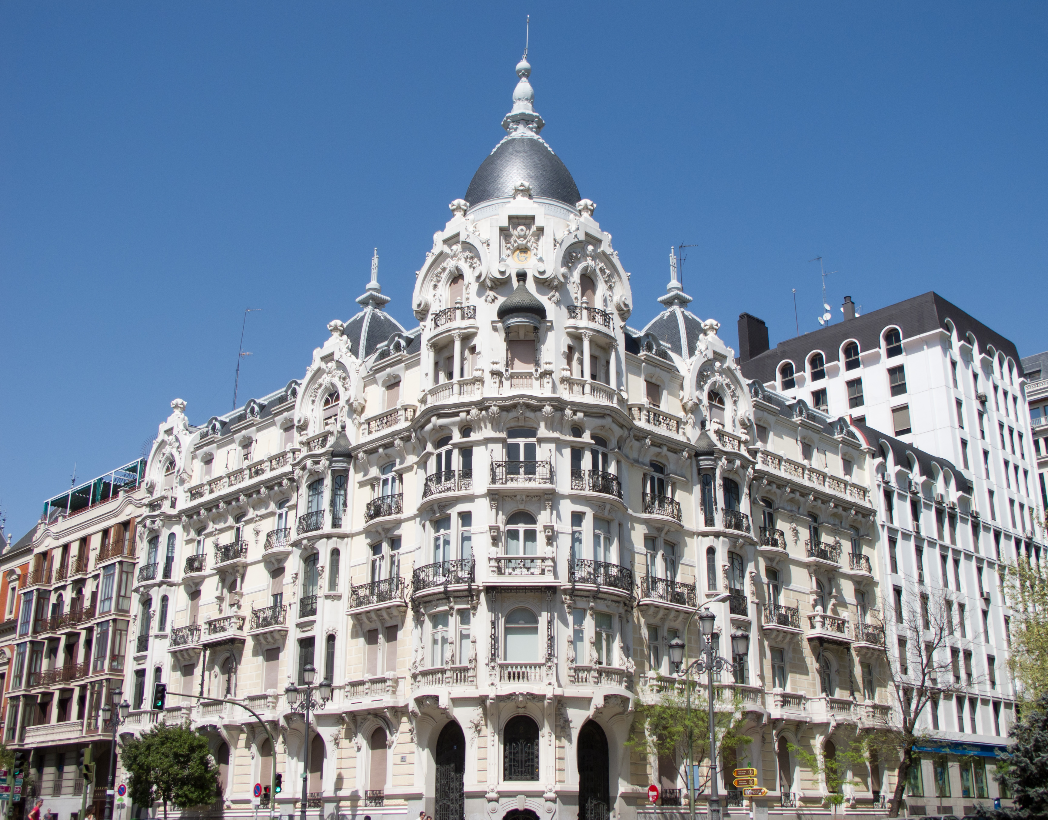 Casa Gallardo, Madrid, Spain.